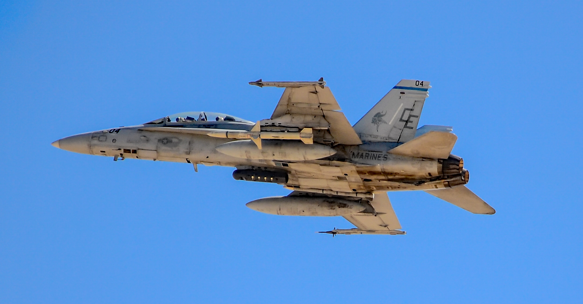 Marine Corps Air Station Miramar, California Las Vegas - Nellis AFB (LSV / KLSV) USA - Nevada, March 19, 2018 Photo: TDelCoro